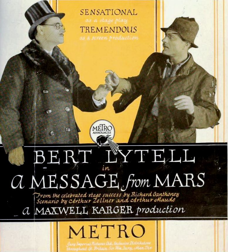 Ad for the American film A Message from Mars (1921) with Bert Lytell, on the cover of the April 17, 1921 Film Daily